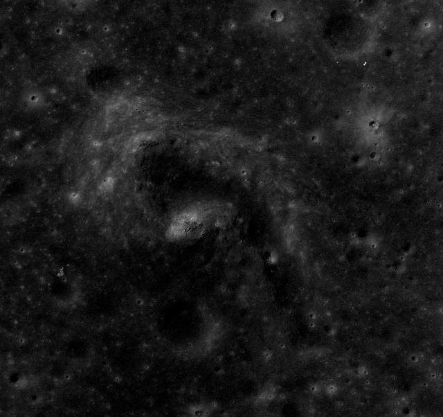 Oblique view of Isis crater, on the moon, facing south. This is most likely a volcanic feature rather than an impact crater.